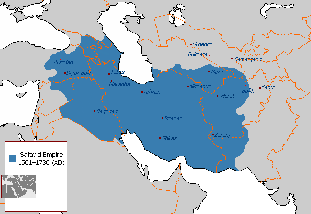 A map depicting the extent the Safavid Empire at its greatest extent under Ismail I.